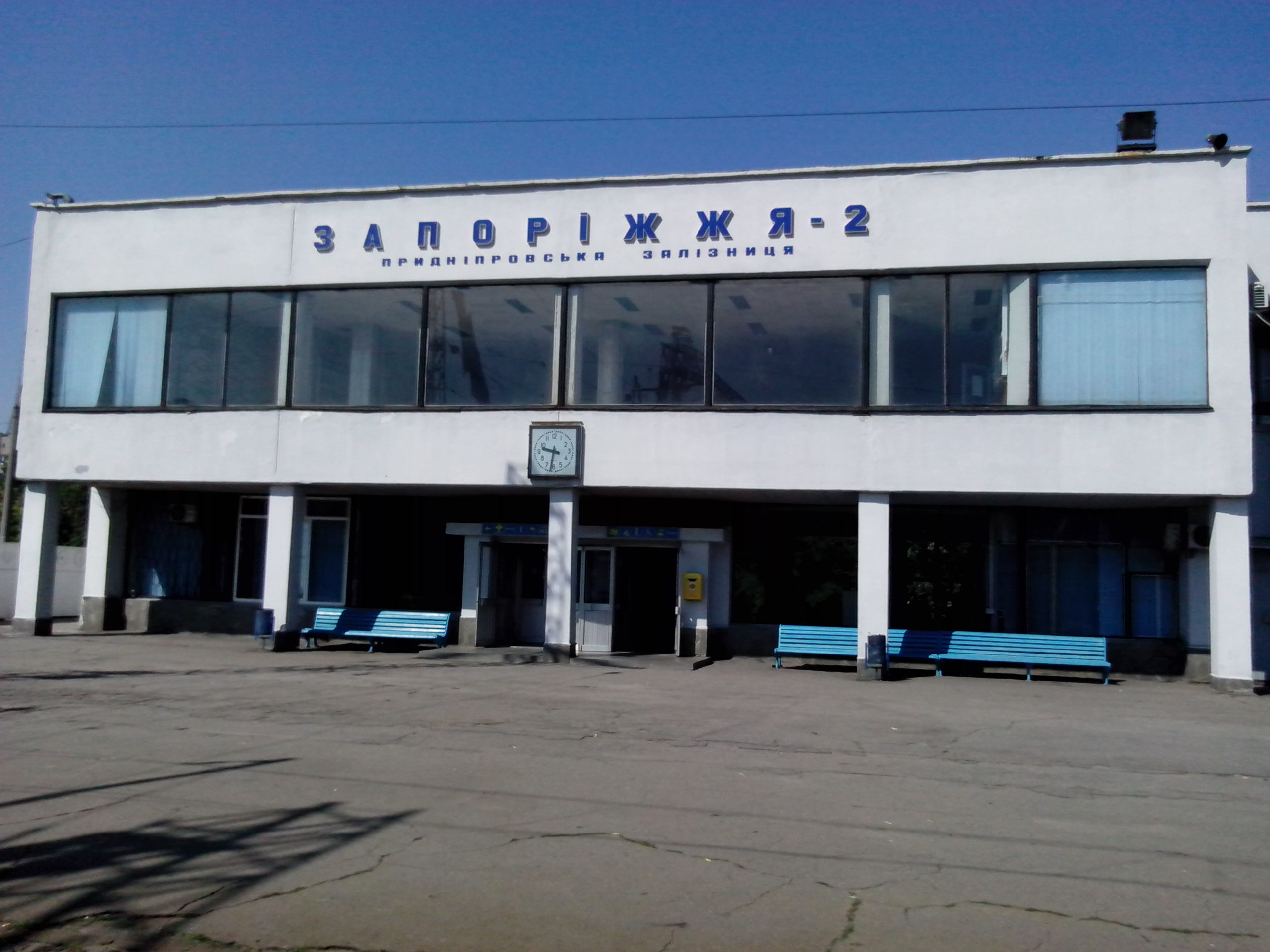 Rail road station Zaporizhzhia II